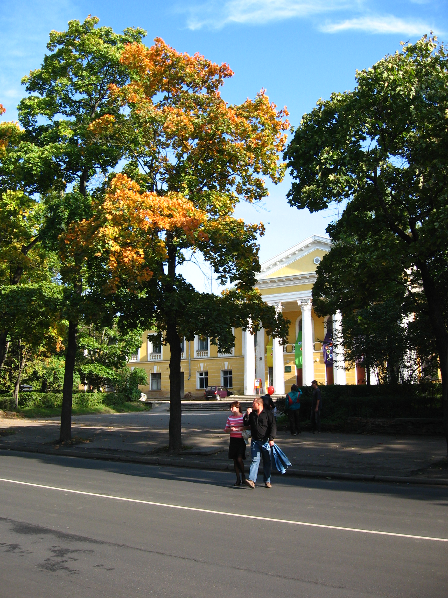 House of Culture in Gatchina